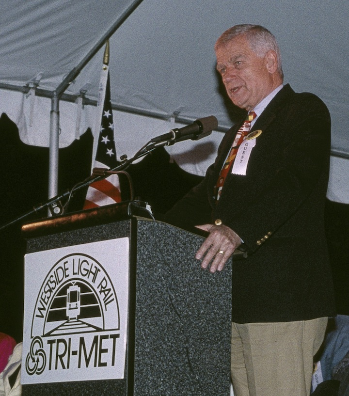 U.S. Senator Mark Hatfield speaking at a ceremony marking the start of tunnel construction for TriMet's Westside Light Rail line (Portland–Hillsboro), now part of the MAX system's Blue Line.